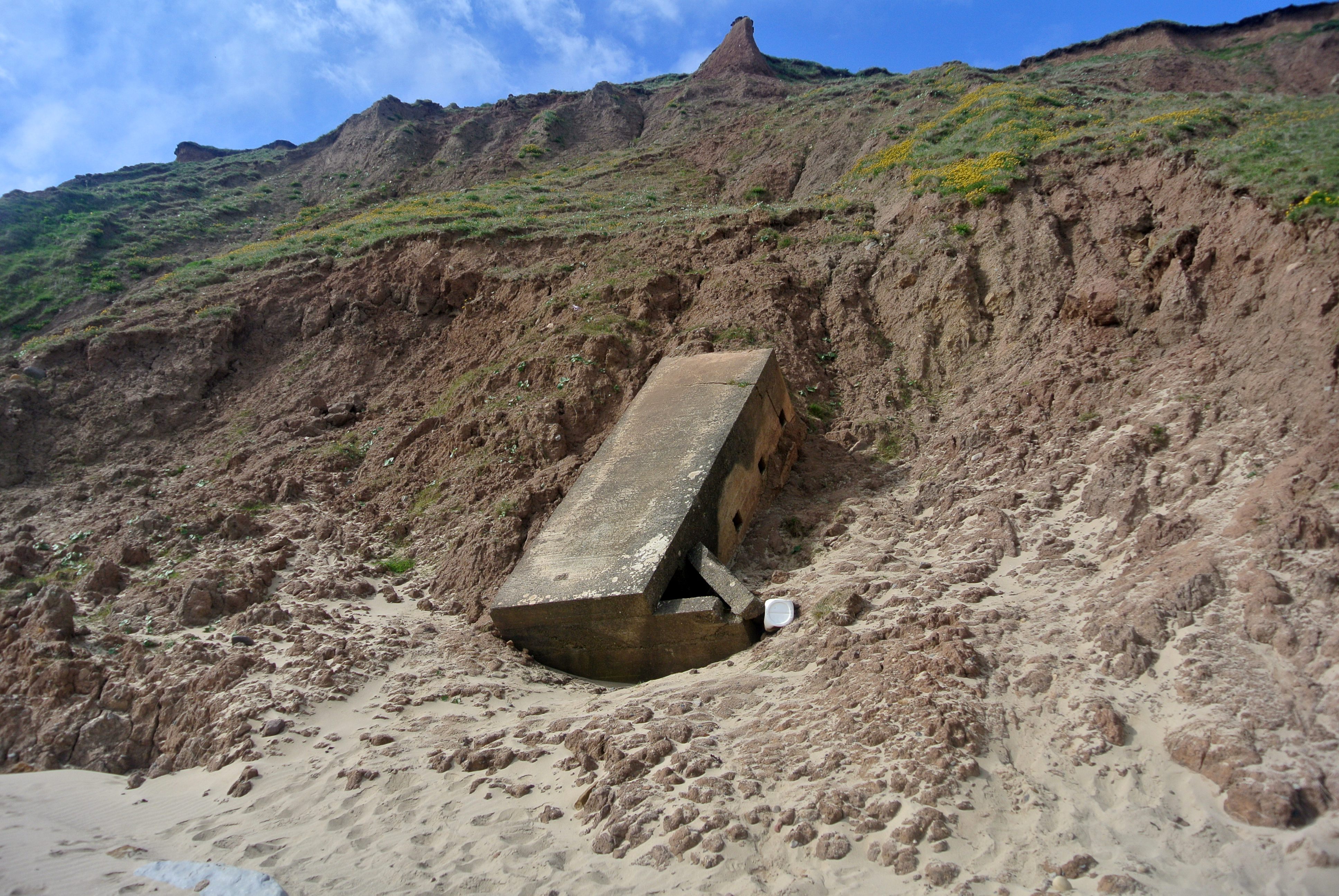 WWII pillbox on eroding Boulder Clay, Filey Bay, North Yorkshire.